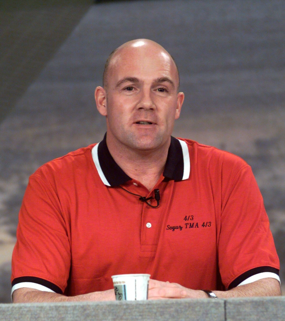 European Space Agency (ESA) Soyuz crewmember Andre Kuipers of the Netherlands fields a question during the Expedition 9 pre-flight press conference at Johnson Space Center (JSC).